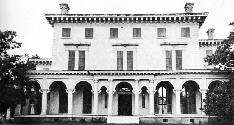 Annandale Plantation mansion in Mannsdale, Madison County, Mississippi. Built from 1857–59. Burned to the ground on September 9, 1924. A Classical Revival style replacement was later built at the site.